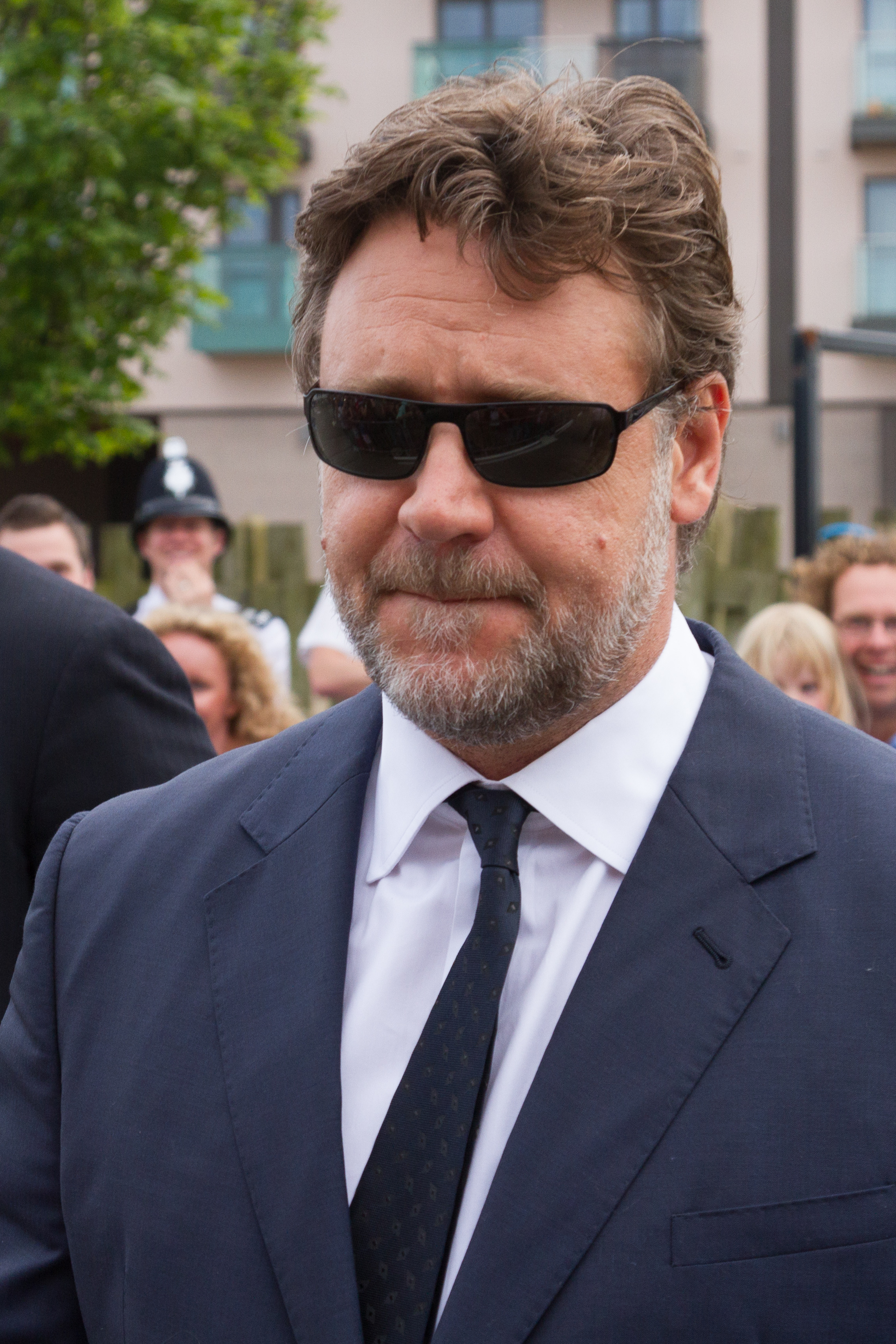 Russell Crowe in St Helier, Jersey at the Man of Steel première.